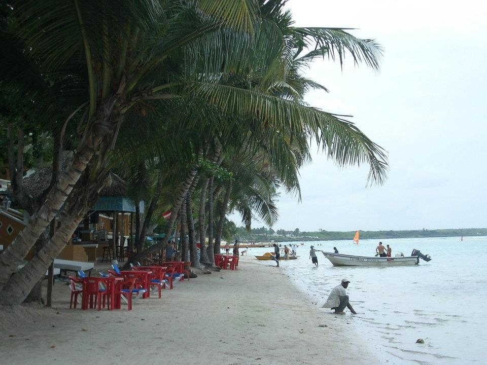 Mirada desde el punrto del corazon